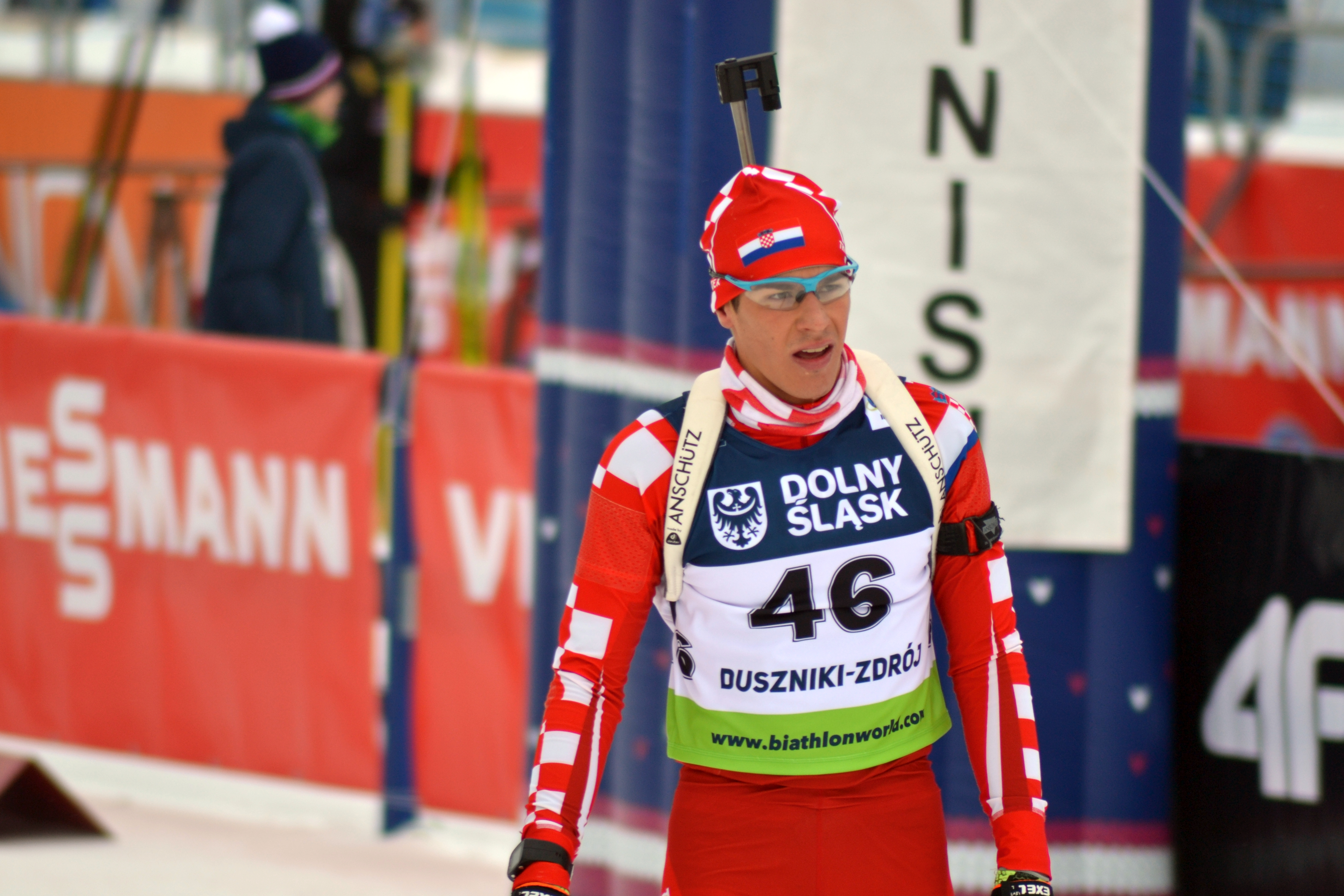 Open European Championships Biathlon 2017, Individual Men's race, held on January 25th.